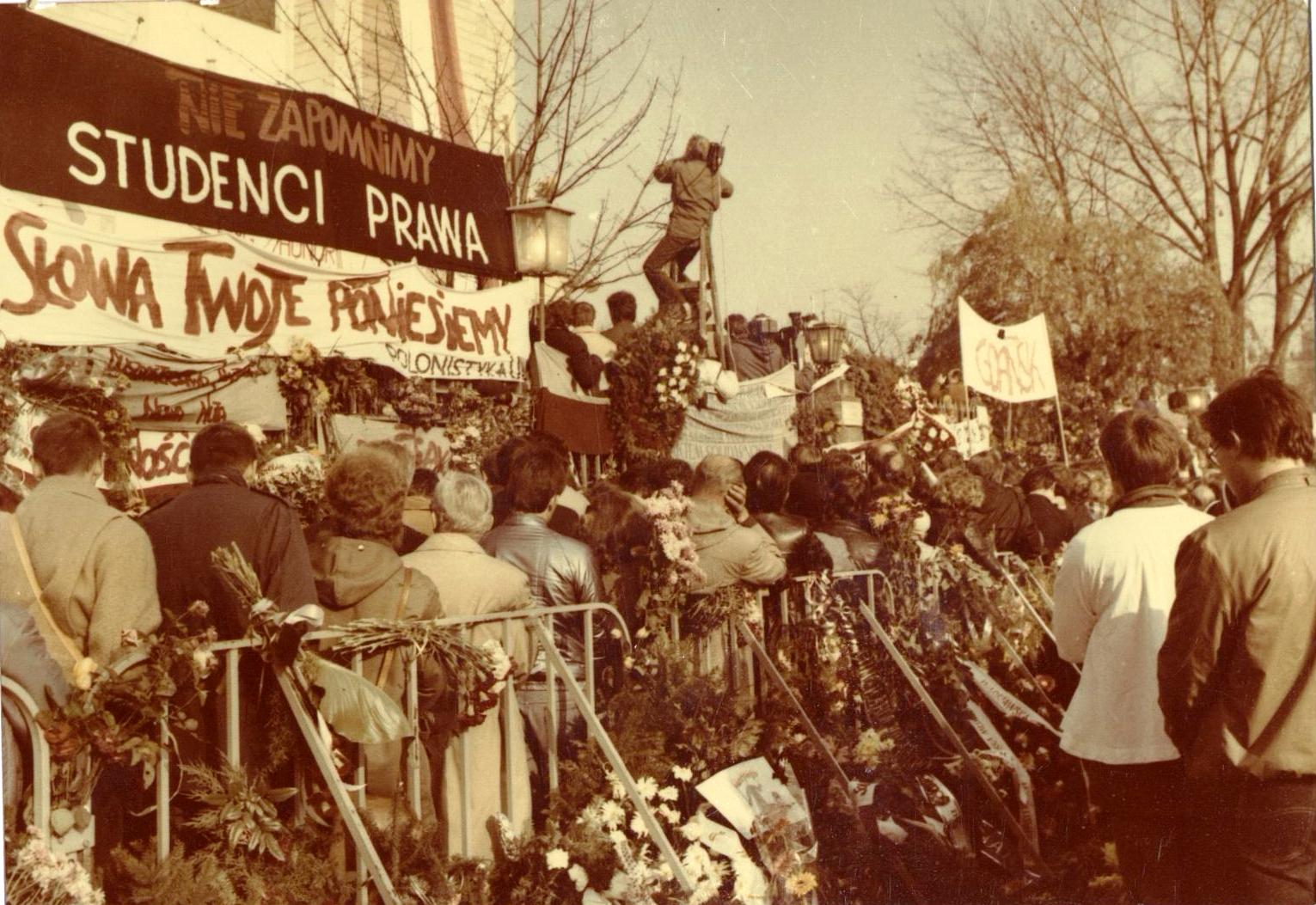 Funeral of Jerzy Popiełuszko at Saint Stanislaus Kostka Church in Warsaw